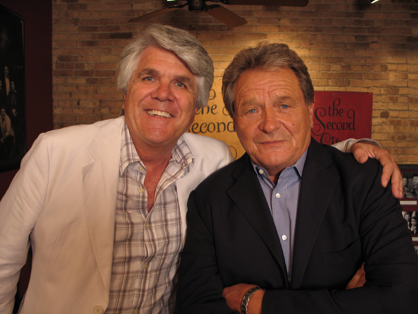 Andrew Alexander (left) and Len Stuart from The Second City